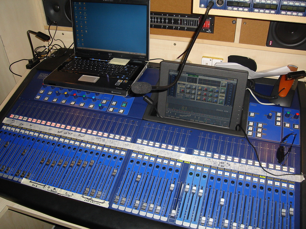 Console son modèle InnovaSon InnovaSon Sy48 (live audio console from touring to fixed installations, and broadcast)